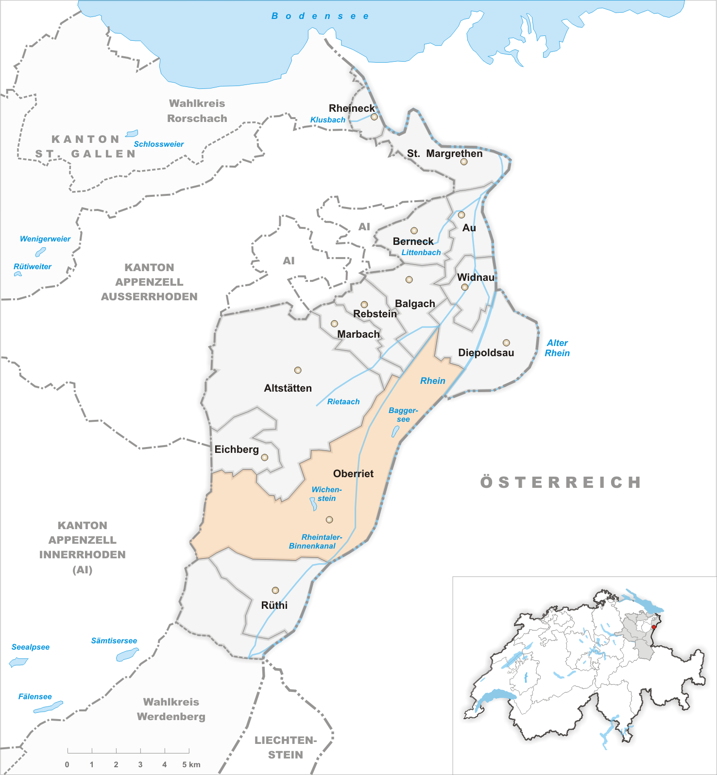 Municipality Oberriet